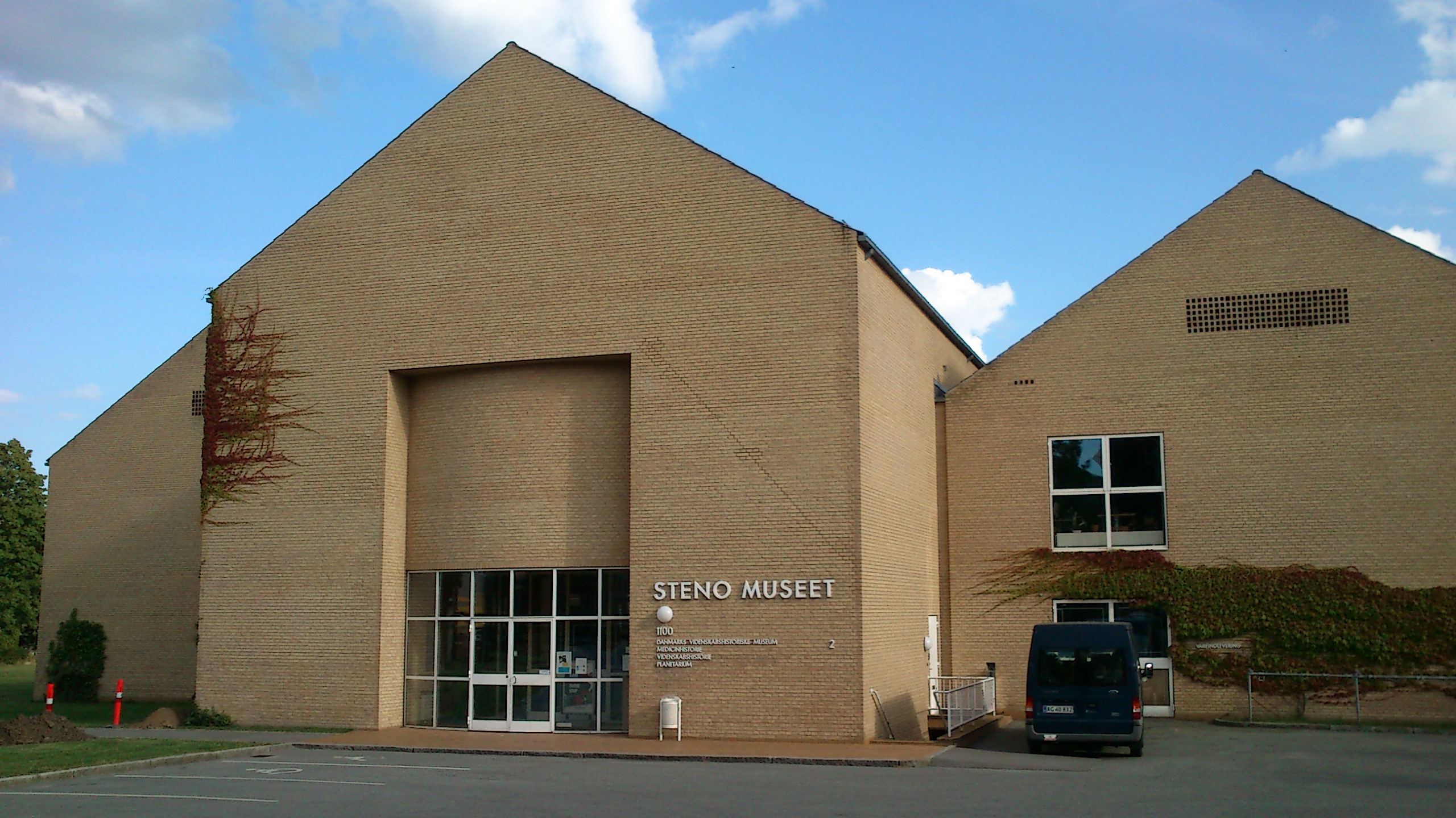 Steno Museet